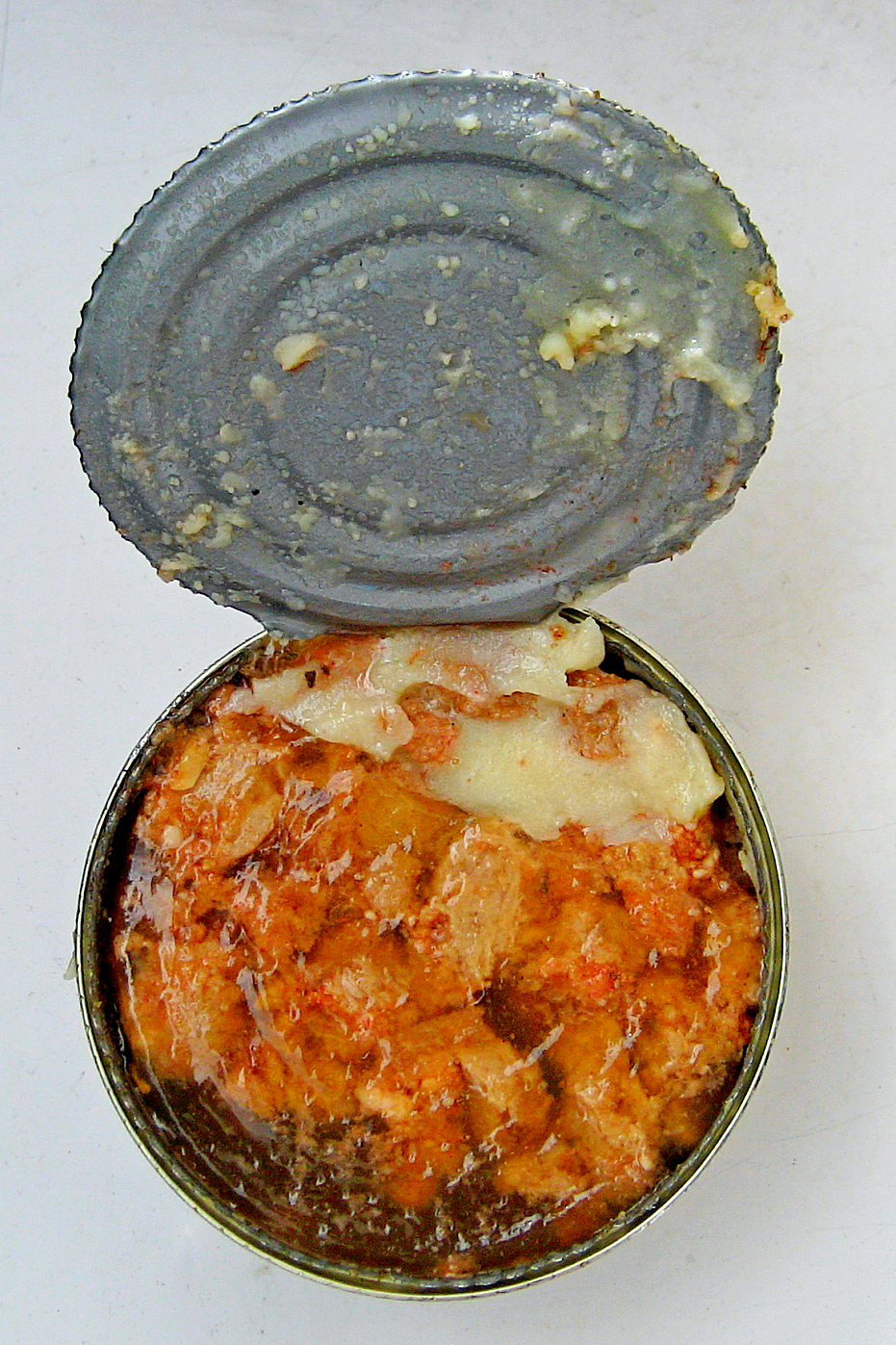 Beef dishes of Russia. Canning.